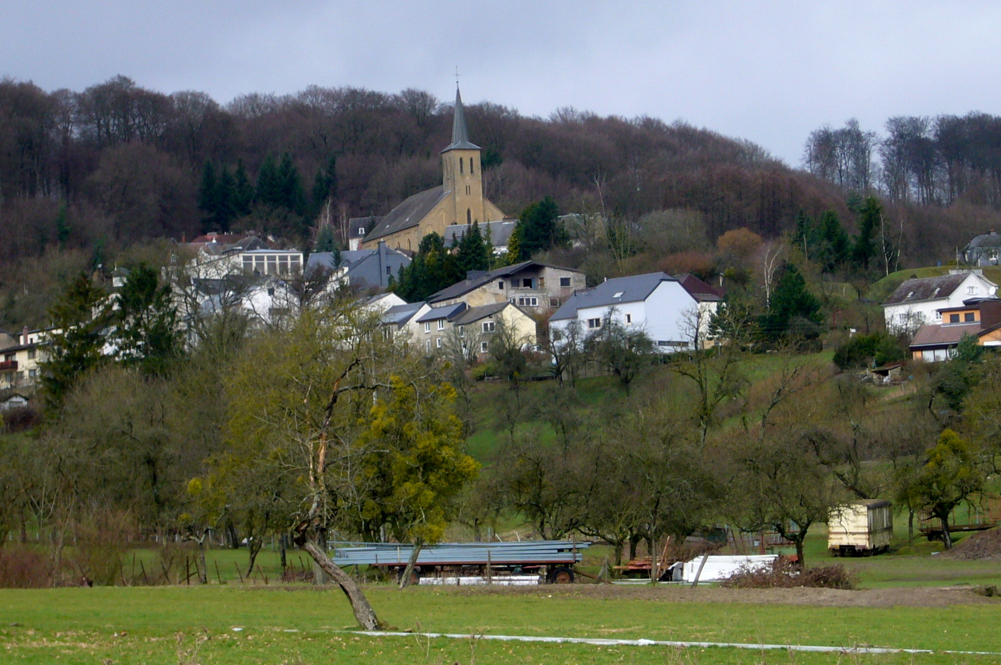 Church